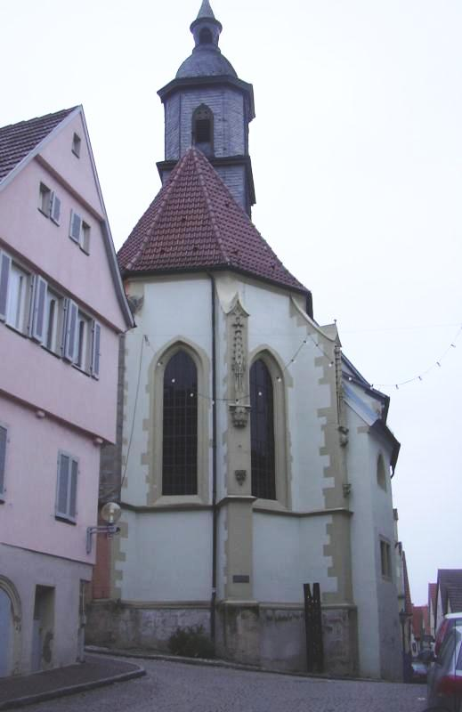 Parish church of Marbach am Neckar, Germany